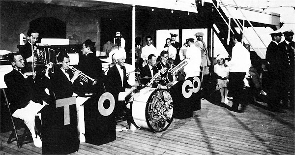 TOGO, Swedish Jazzorchestra